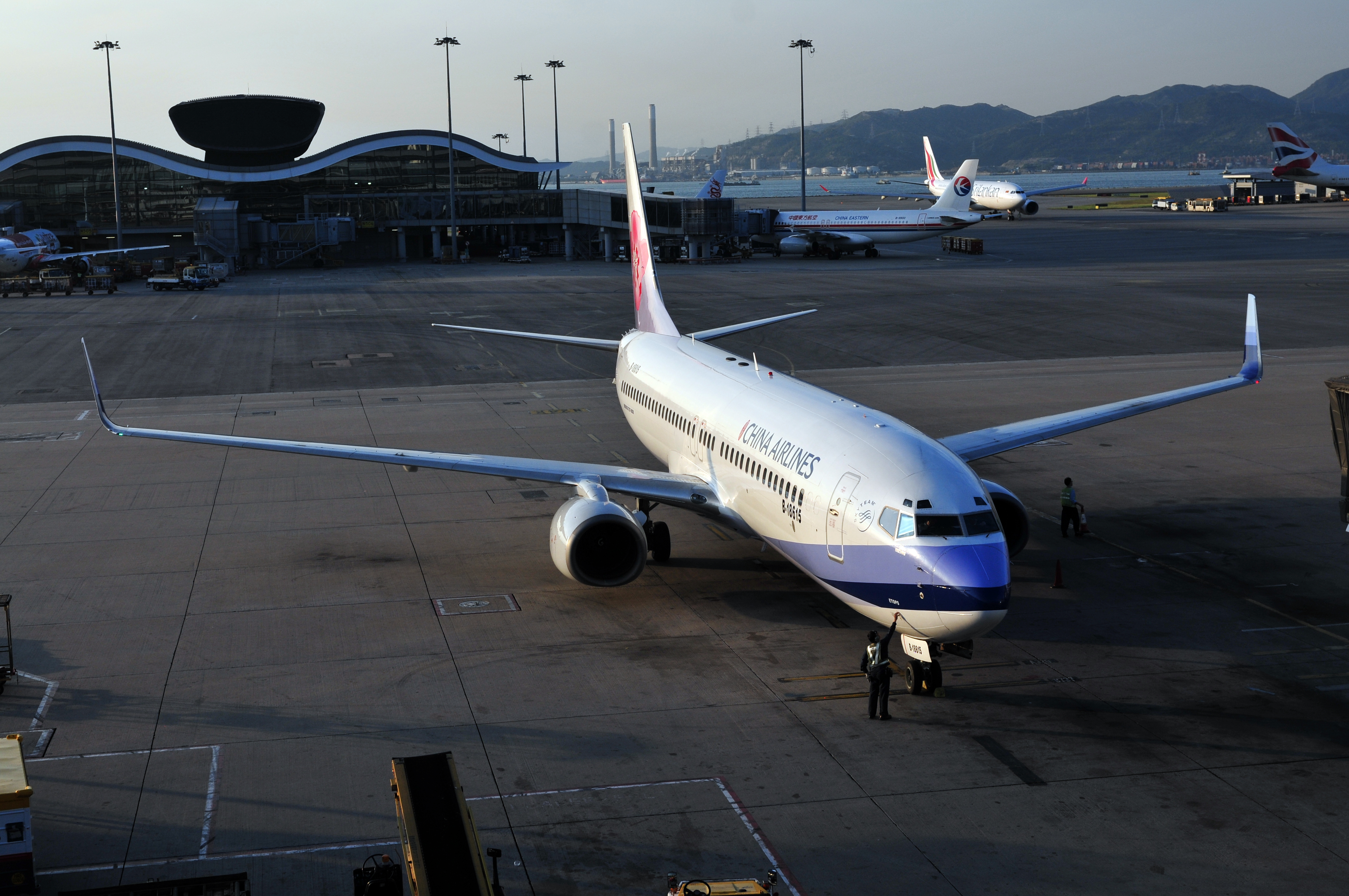 Boeing 737-809 B 18615 China Airline